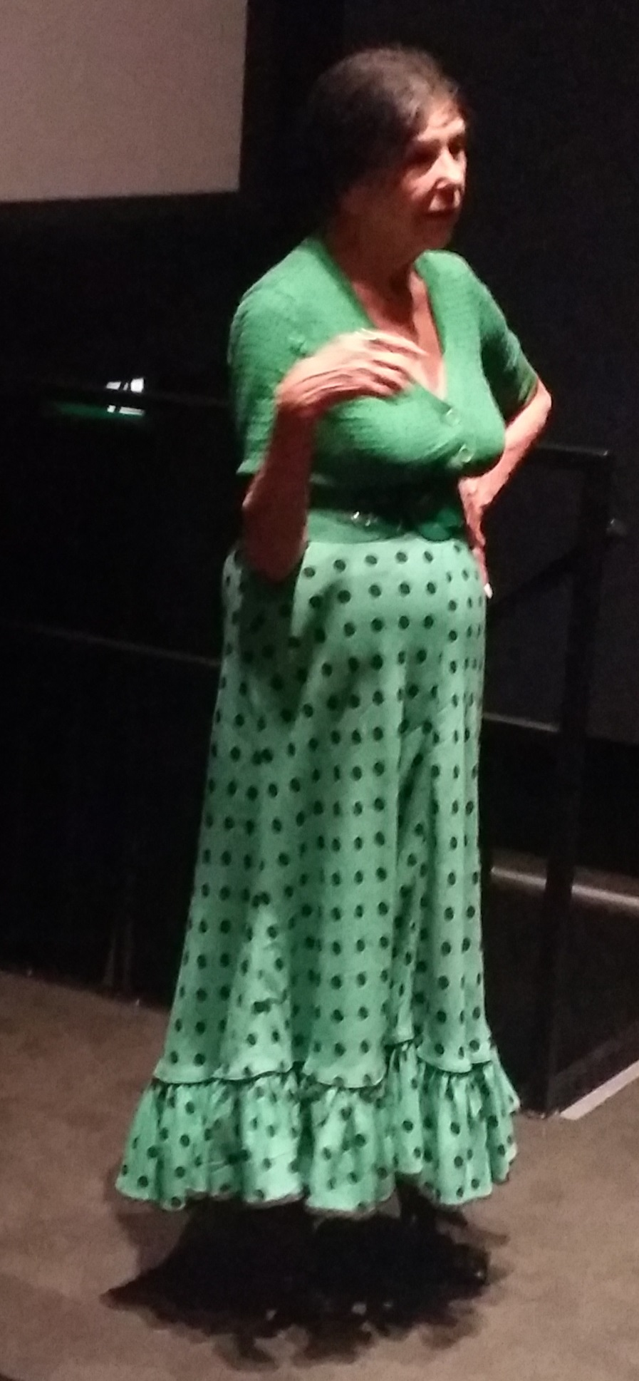 Alanis Obomsawin inside the Cinéma Moderne photographed in Montréal, Québec, Canada at the Pop Montréal Festival.